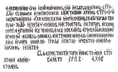 17th century engraving from the entrance to the Monastery of St. Nikola - Prilep, Republic of Macedonia.